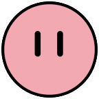 The Kirby stock icon from smash bros.